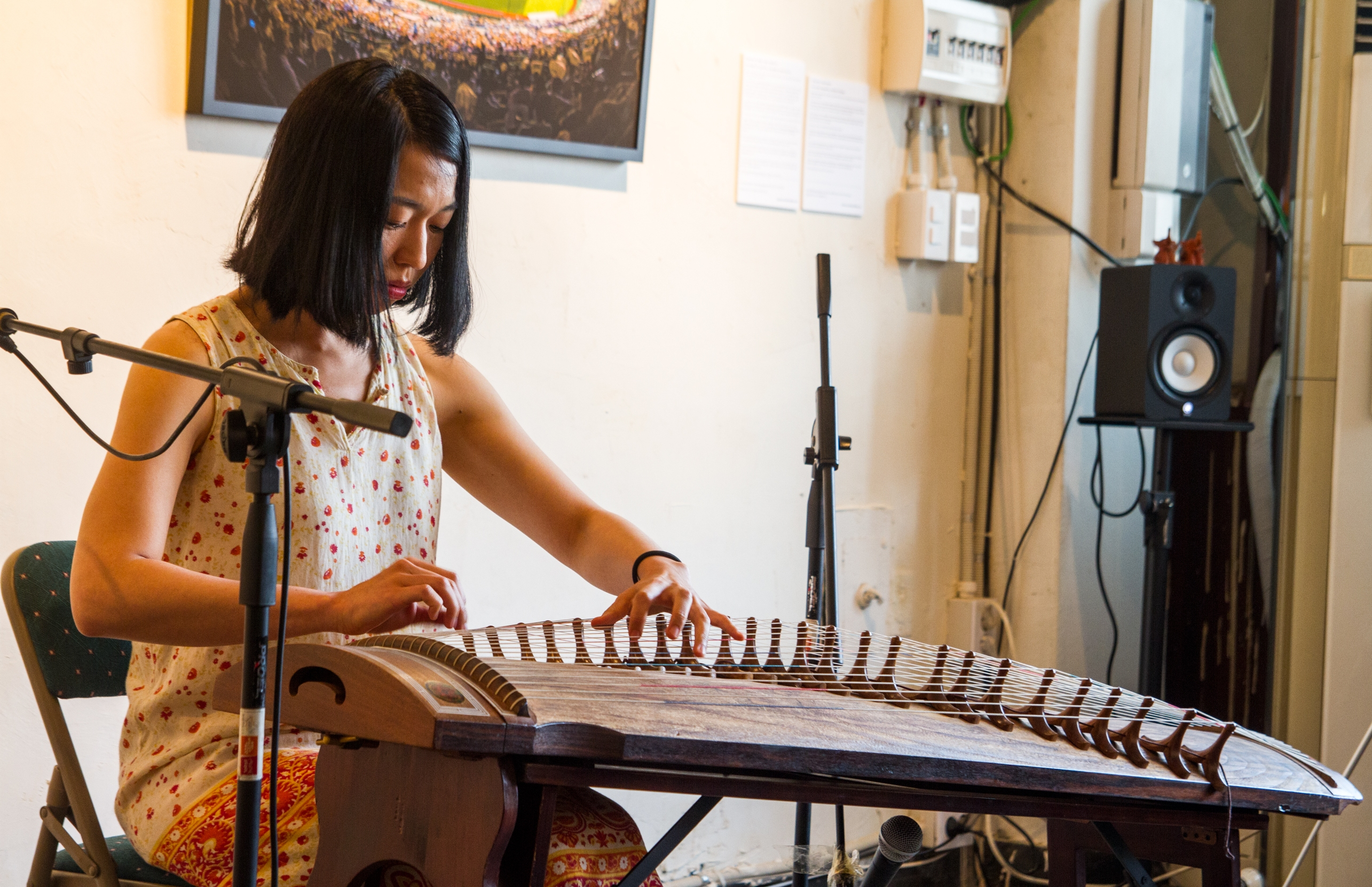 Jung Mina (gayageum musician) at Bittarae in July 2013